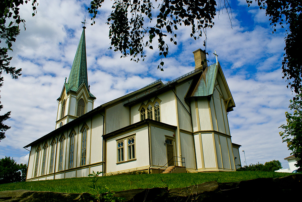 Lillesand church i Aust-Agder county, Norway